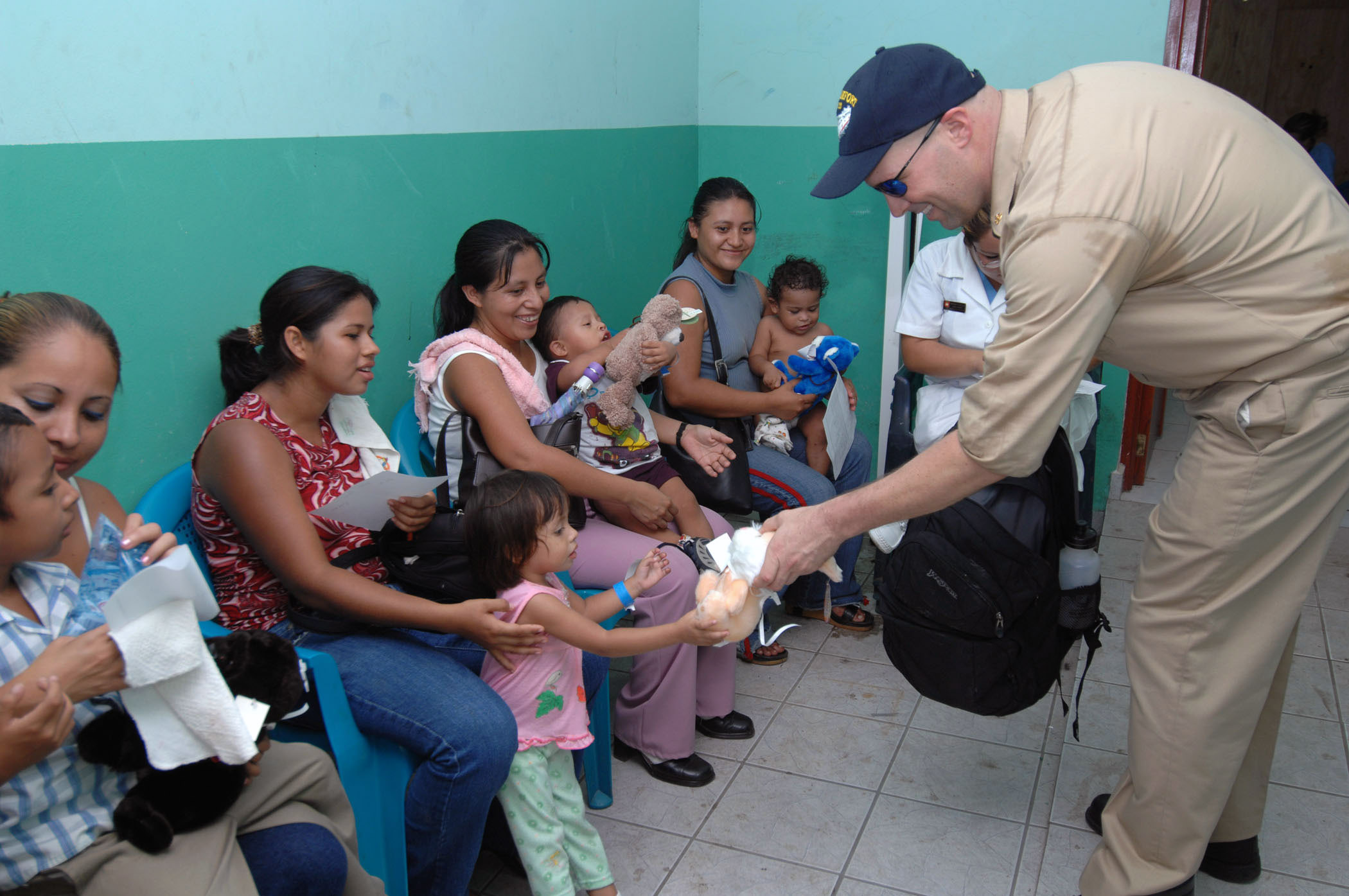 ACAJUTLA, El Salvador (July 28, 2007) - Senior Chief Operations Specialist Gene Demers, attached to the Military Sealift Command hospital ship USNS Comfort (T-AH 20), hands out teddy bears to children at Unidad de Salud Health Center in Acajutla. Project Handclasp, a non-profit organization, provided medical donations to the hospital. Comfort is on a four-month humanitarian deployment to Latin America and the Caribbean providing medical treatment to patients in a dozen countries. U.S. Navy photo by Mass Communication Specialist 2nd Class Elizabeth Allen (RELEASED)